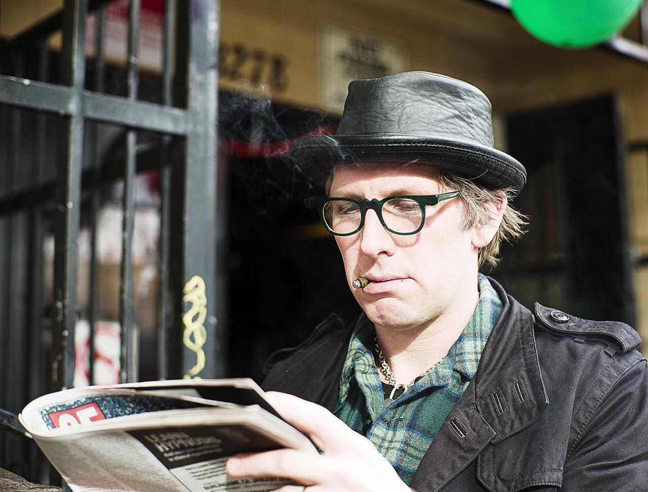 the hipster